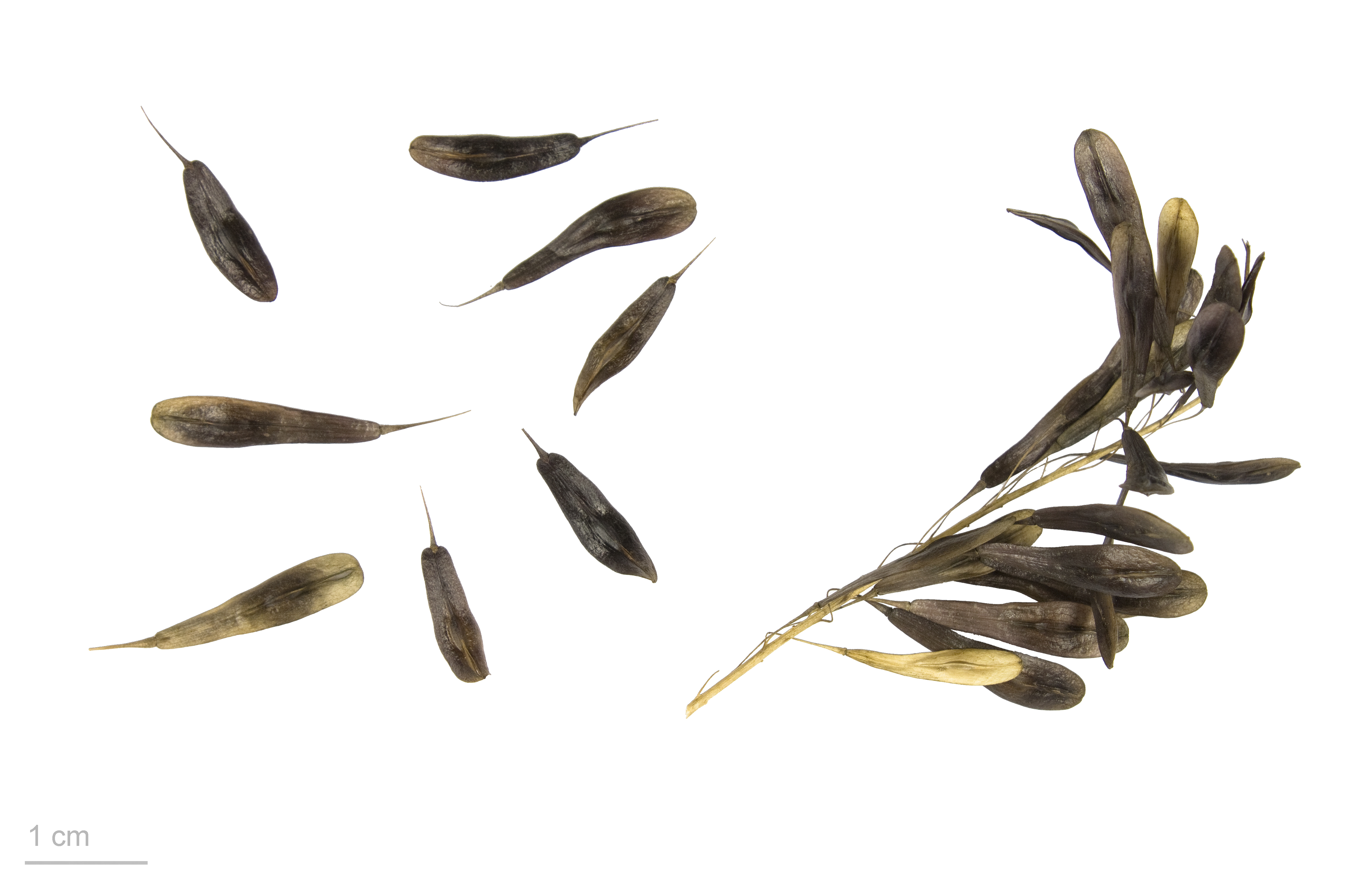 Woad , fruits and seeds